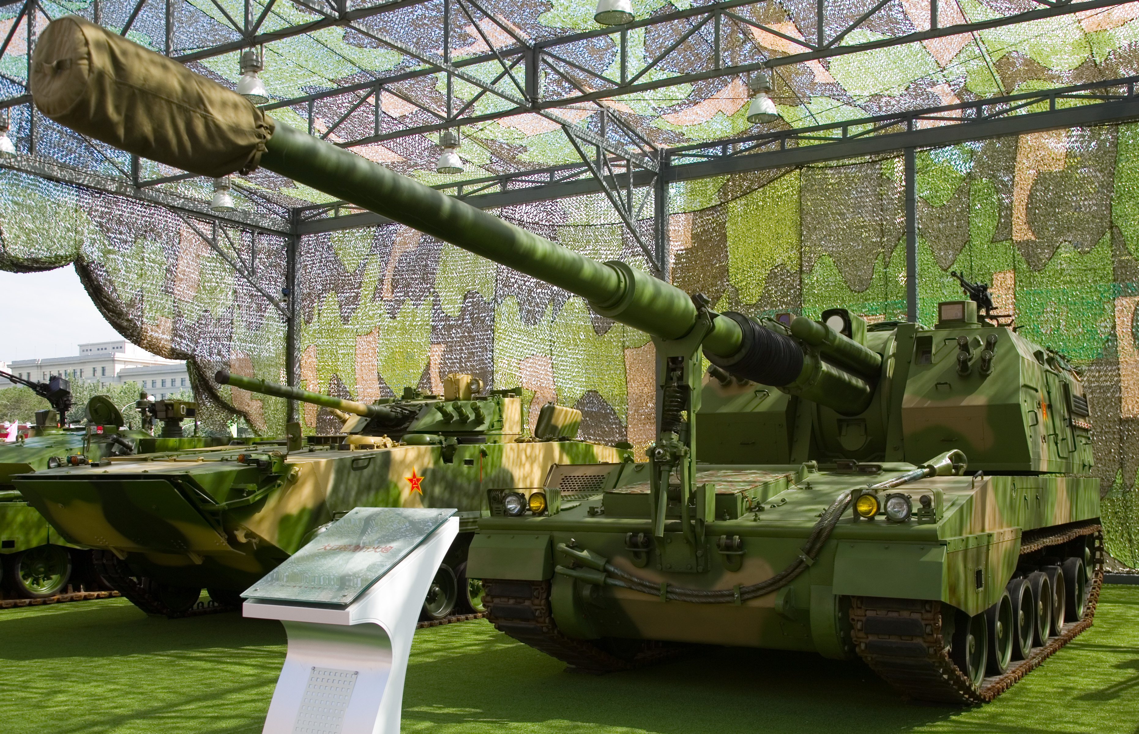 A Chinese PLZ05 155mmm Self-propelled Howitzer on display at the "our troops towards the sky" exhibition in Beijing.